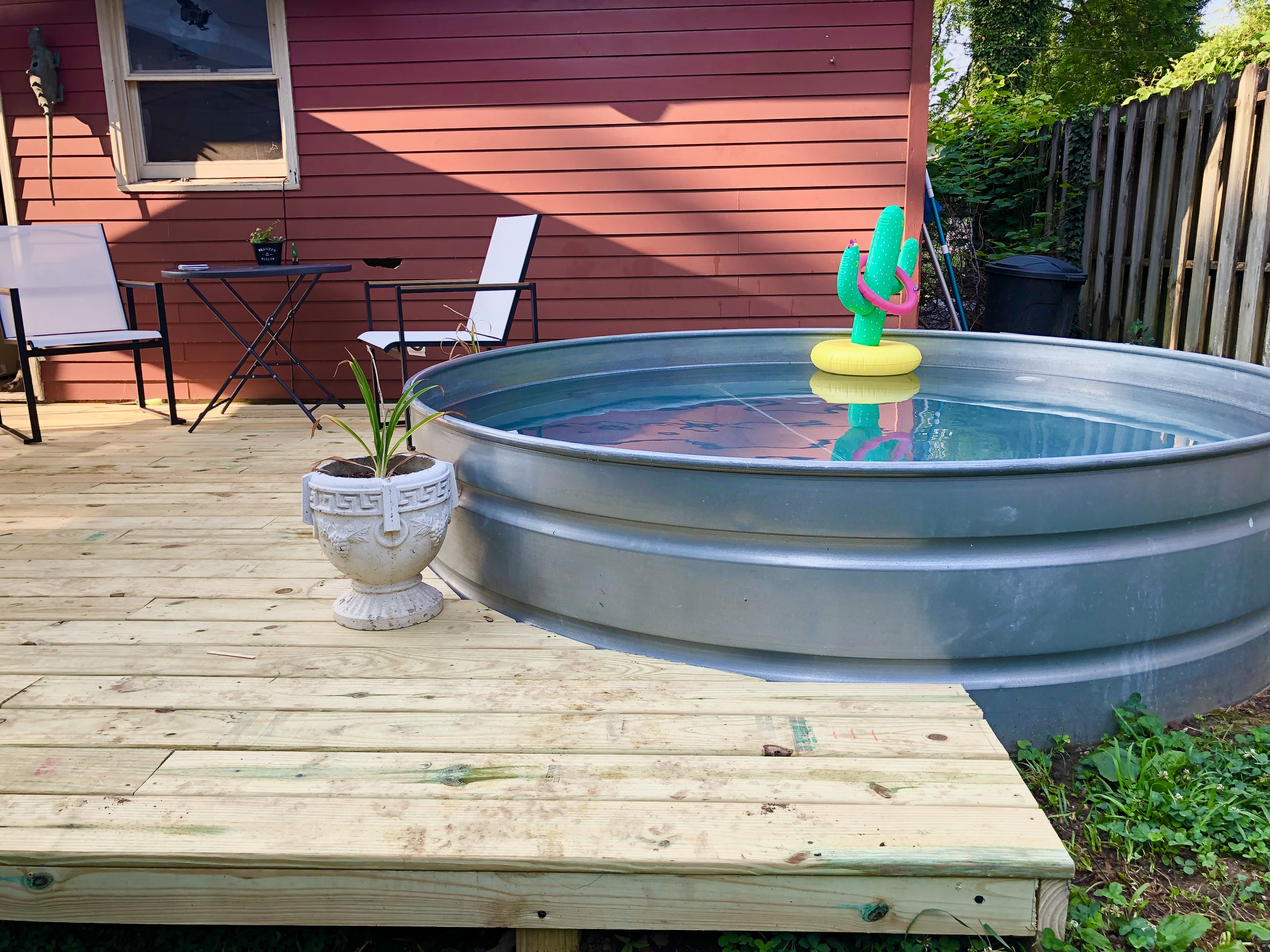 An example of a back yard "stock tank pool" from .